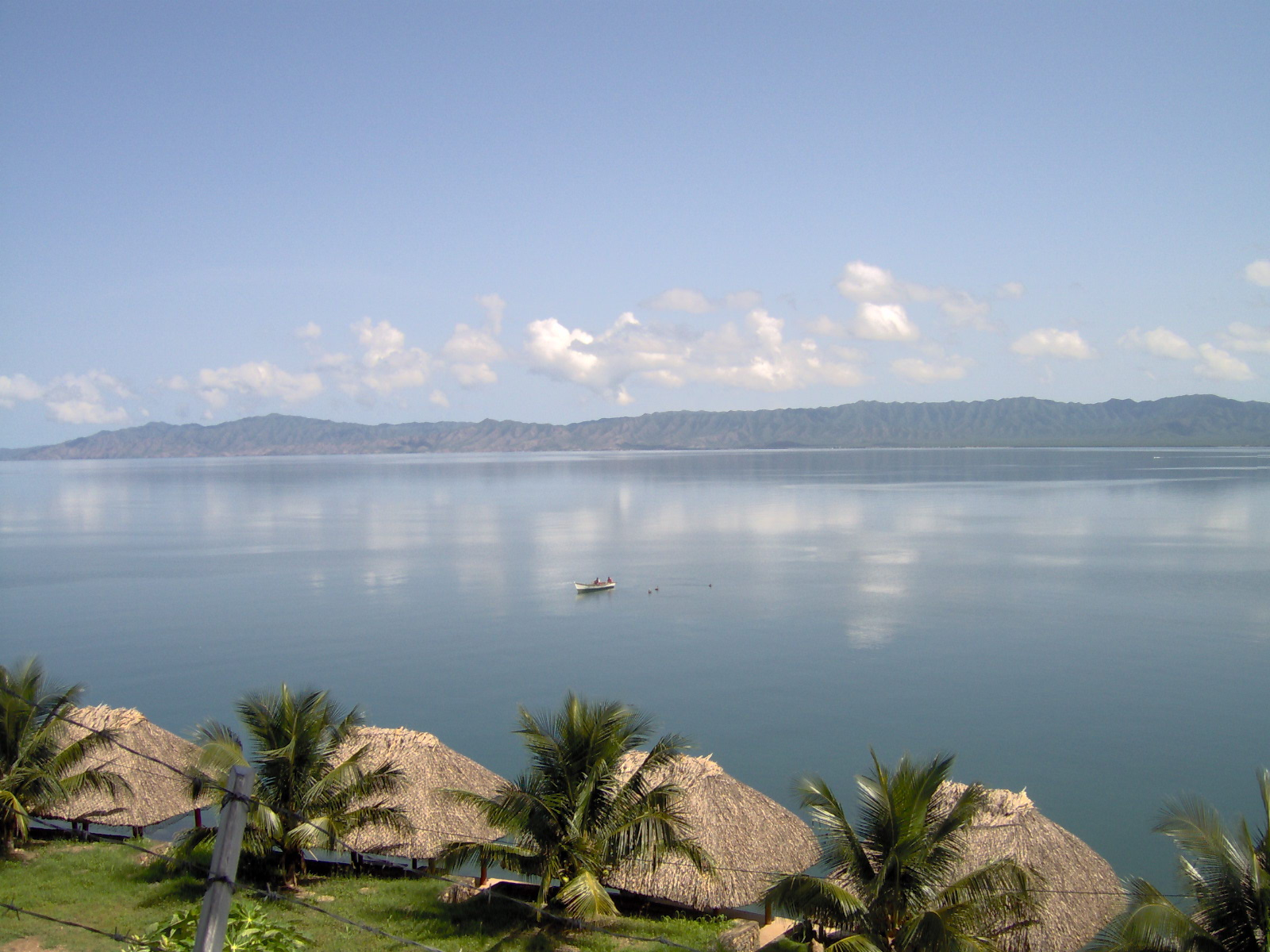 View towards Cariaco Gulf, Venezuela.